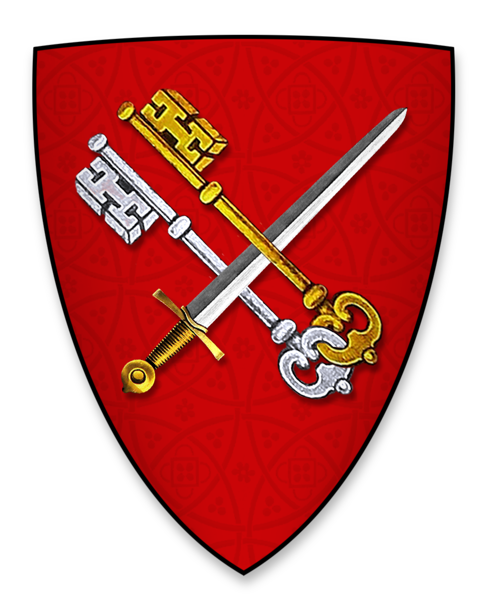 Arms displayed by -Peter des Roches, Bishop of Winchester, at the signing of Magna Charta